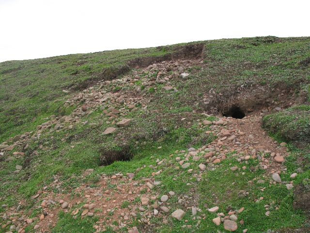 Esker material The rounded stones and gravels that make up the Kaims, courtesy of the rabbits. The dry ground is favoured for their burrows, and being a managed grouse moor, there are fewer of the usual rabbit eaters around.